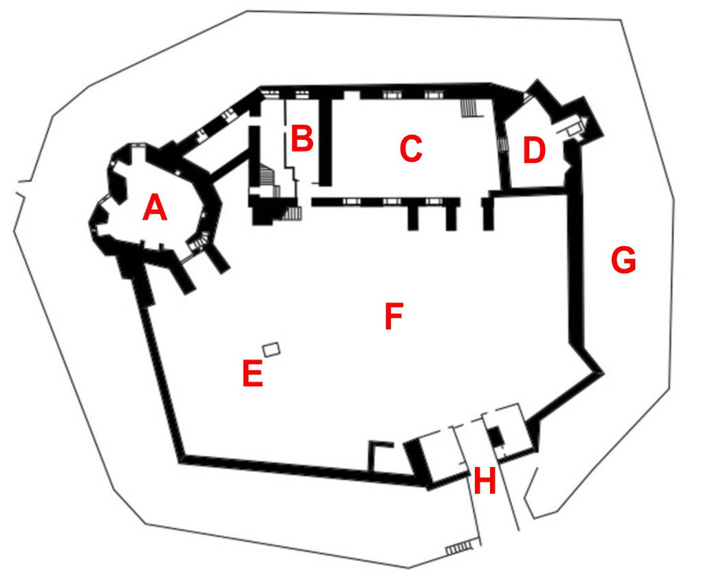 Stokesay Castle Plan, simplified; after Stackhouse-Acton (1868), Gotch (1909) and Summerson (2012)